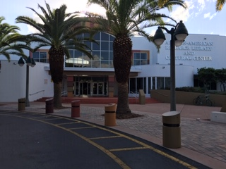 Front entrance of the African American Research Library and Cultural Center. Taken by author in November 2018 in Fort Lauderdale, Florida